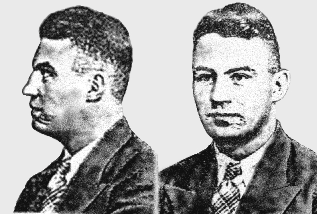 Herbert Lange (1909-1945), as Sturmbannführer (Major) in the SS committed acts of mass-murder in Poland during World War II. He was the commandant of Chełmno extermination camp until April 1942.